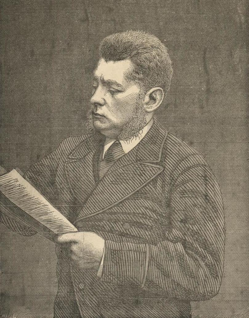 A portrait from the Welsh Portrait Collection at the National Library of Wales. Depicted person: Watkin Williams – British judge and politician